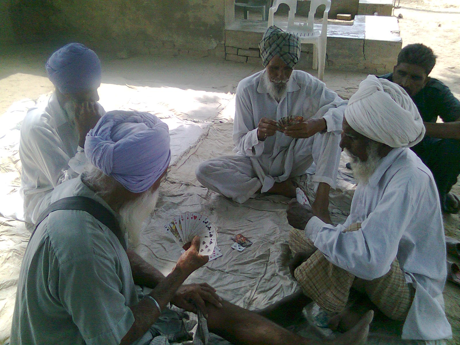 Some old men playing cards in their free time in Raipur village of Mansa district in Indian Punjab.